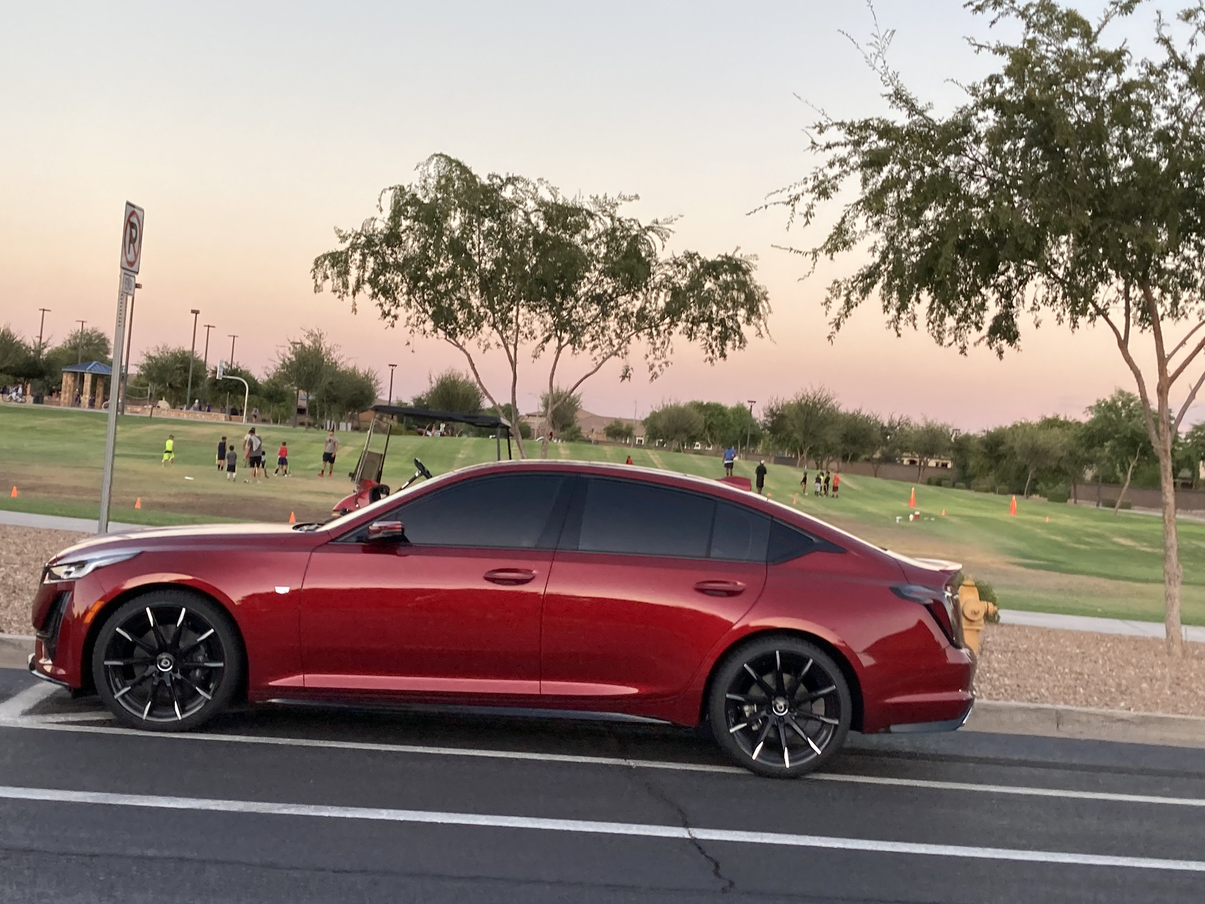 A 2020 Cadillac CT5-V in Chandler, Arizona